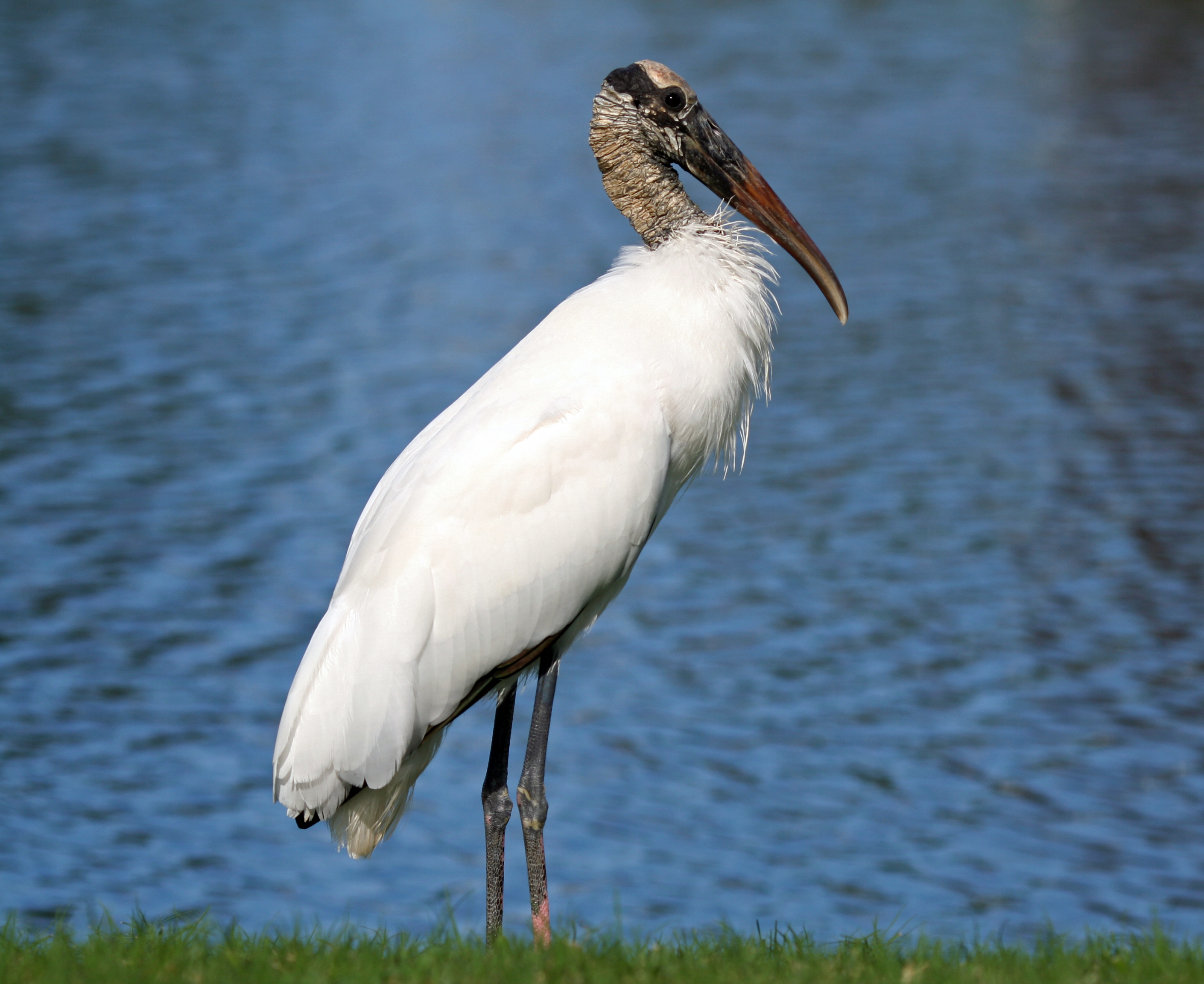 Wood Stork (Mycteria americana), Tarpon Springs, Florida